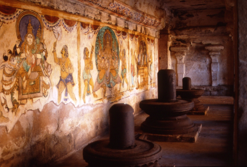 Shiva Lingam, Rajarajesvaram Temple, Chola Dynasty, Thanjavur, Tamil Nadu, India